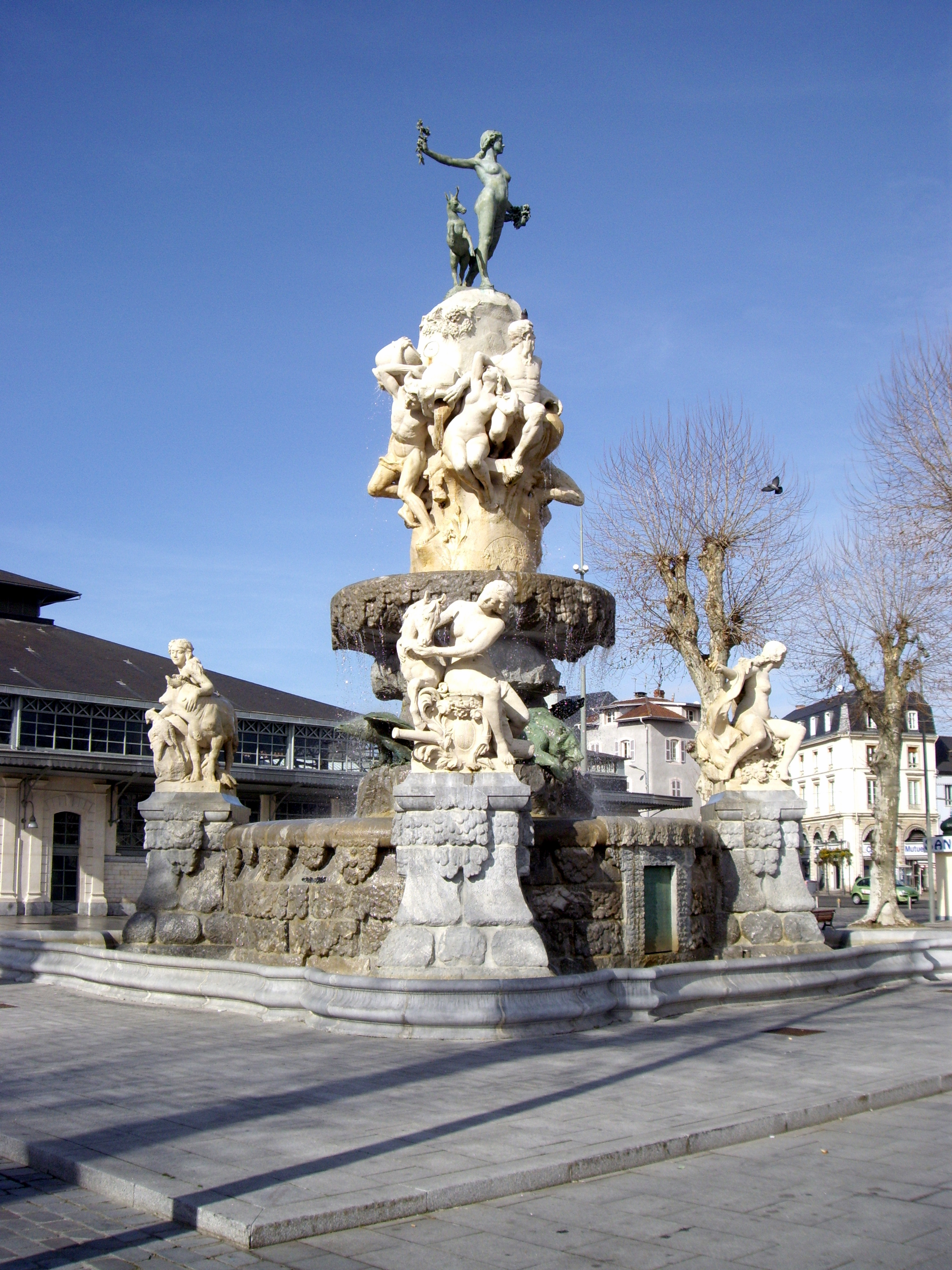 Duvignau Monumental Fountain, Tarbes, Hautes-Pyrénées, France